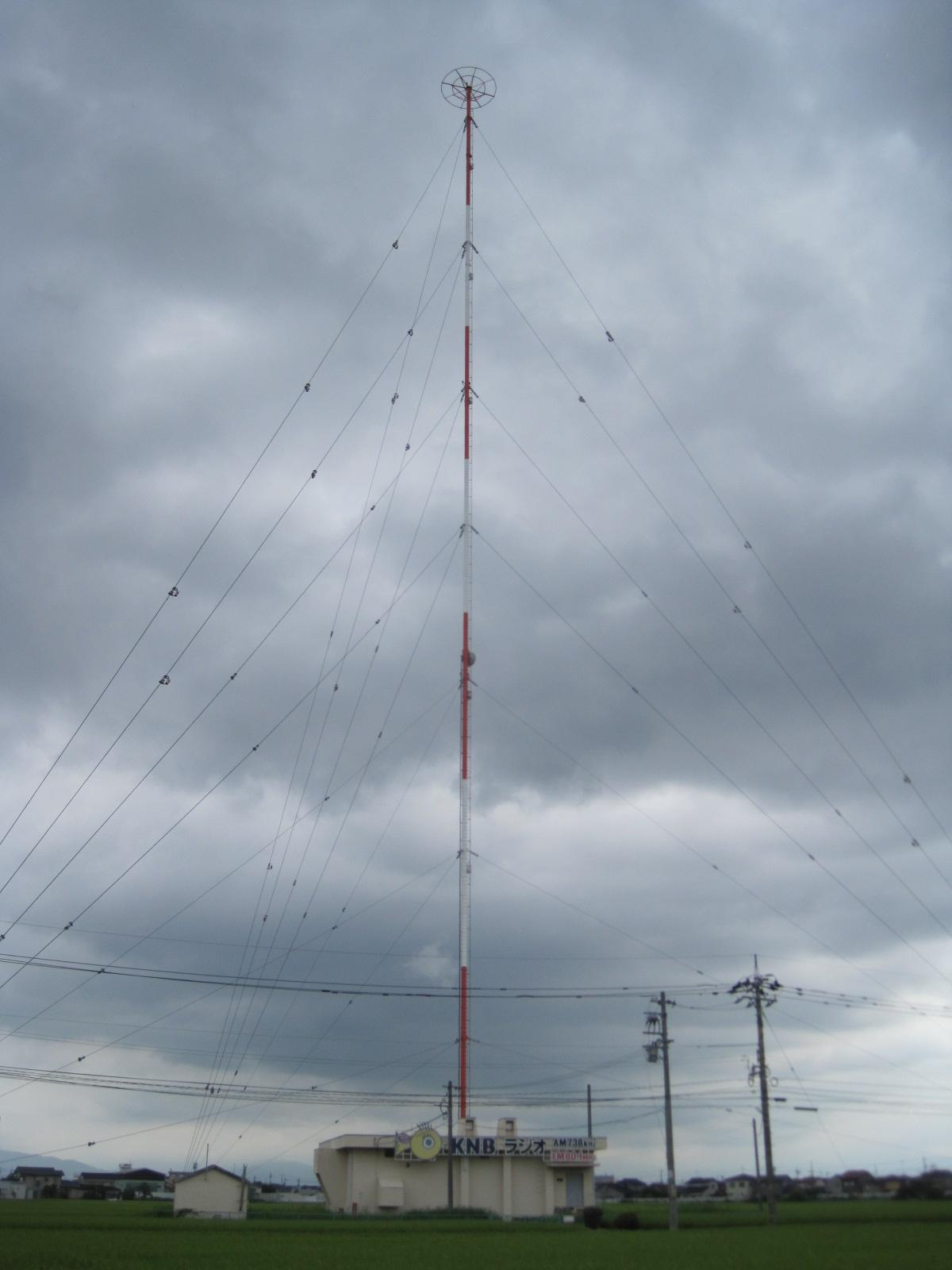 KNB Hirota Radio Transmitting Station (JOLR 738kHz 5kW)